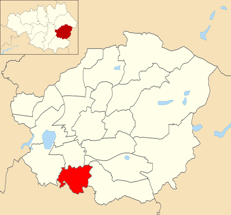 Map showing location of Denton South Ward within Tameside Metropolitan Borough Council.